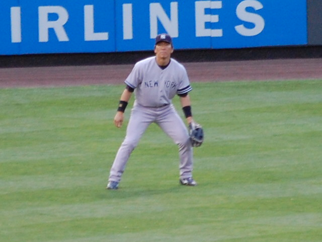 gfdl, own work 00:07, 23 June 2007 . . Onetwo1 . . 640×480 (134 KB)